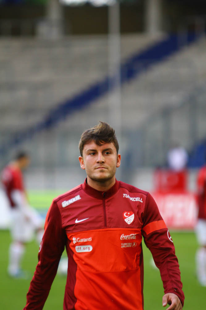 Turkish international football player Sefa Yılmaz